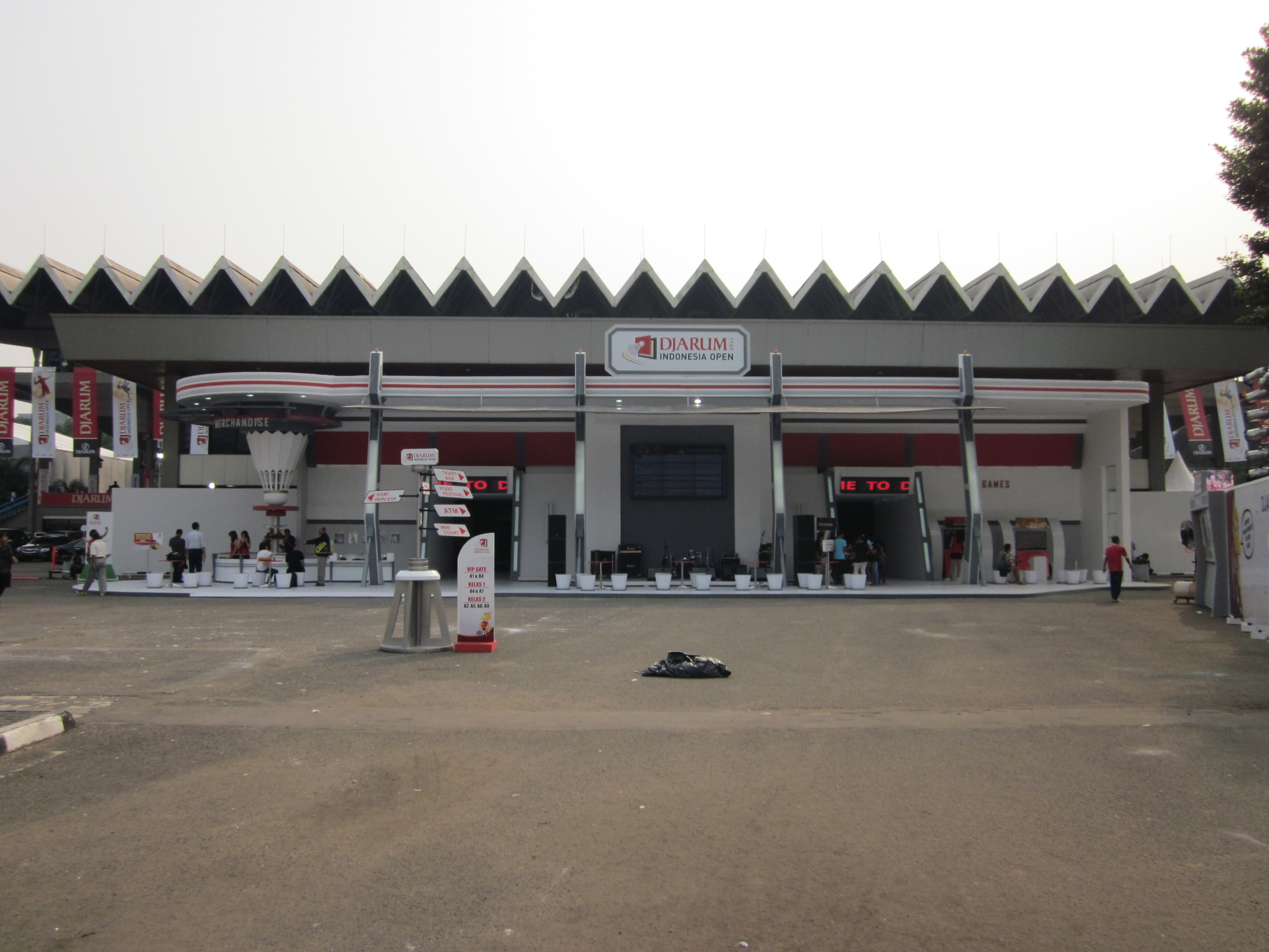 Istora Gymnasium Hall